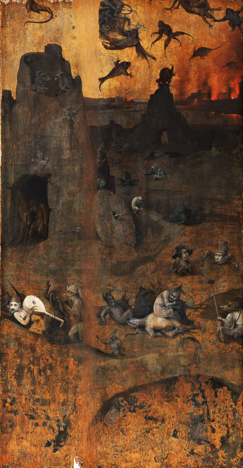 Fragment (innerleft wing) of a triptych. See File:The Hell and the Flood P3.jpg for the outer left wing and File:The Hell and the Flood P4.jpg and File:The Hell and the Flood P2.jpg for the right wing.